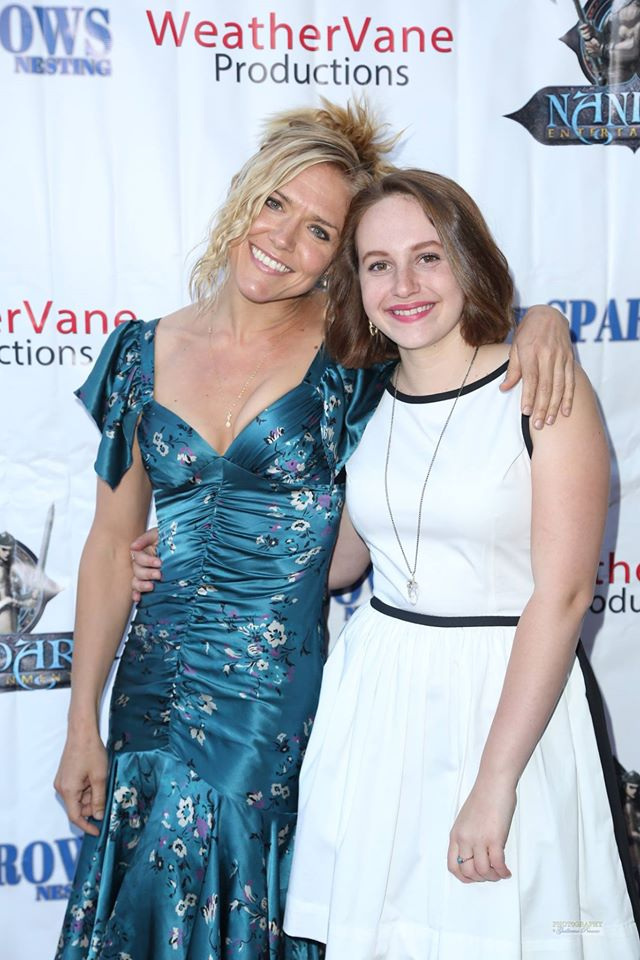 Photo of Dominique Swain (left) and Mandalynn Carlson at The Sparrows: Nesting Screening.